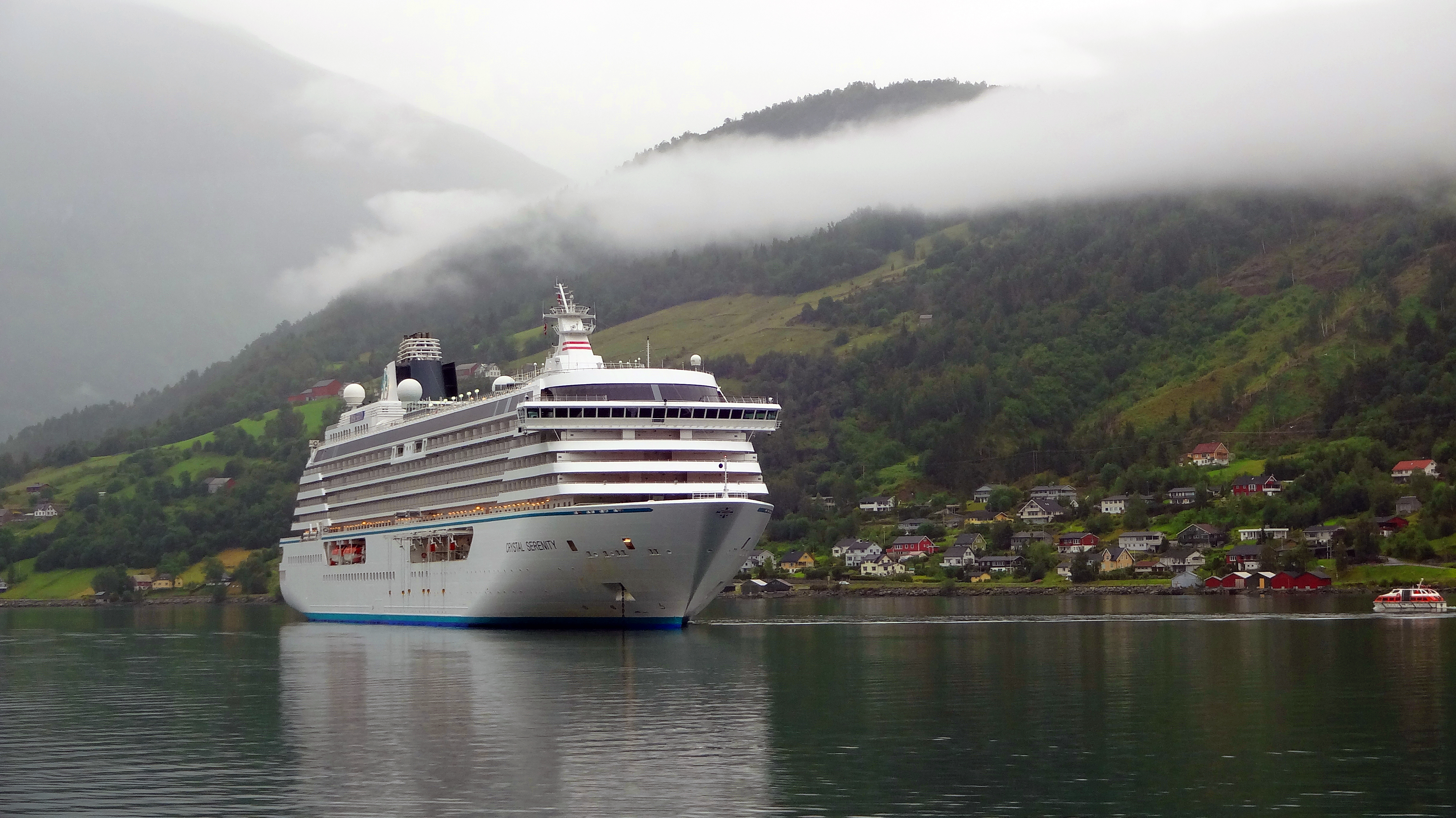 Crystal Serenity in a fjord in Norway